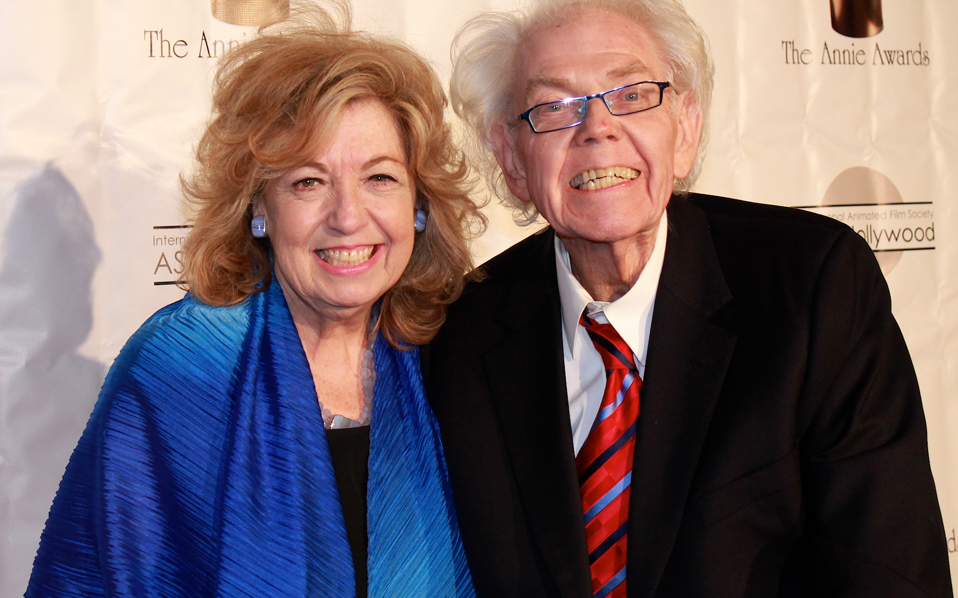 Stan Freberg and his wife, Hunter Freberg, at the 41st Annual Annie Awards.